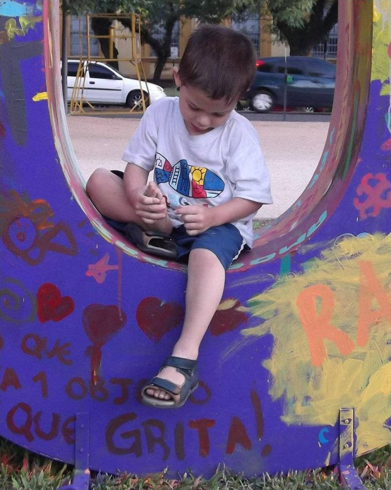 The Real Spinario